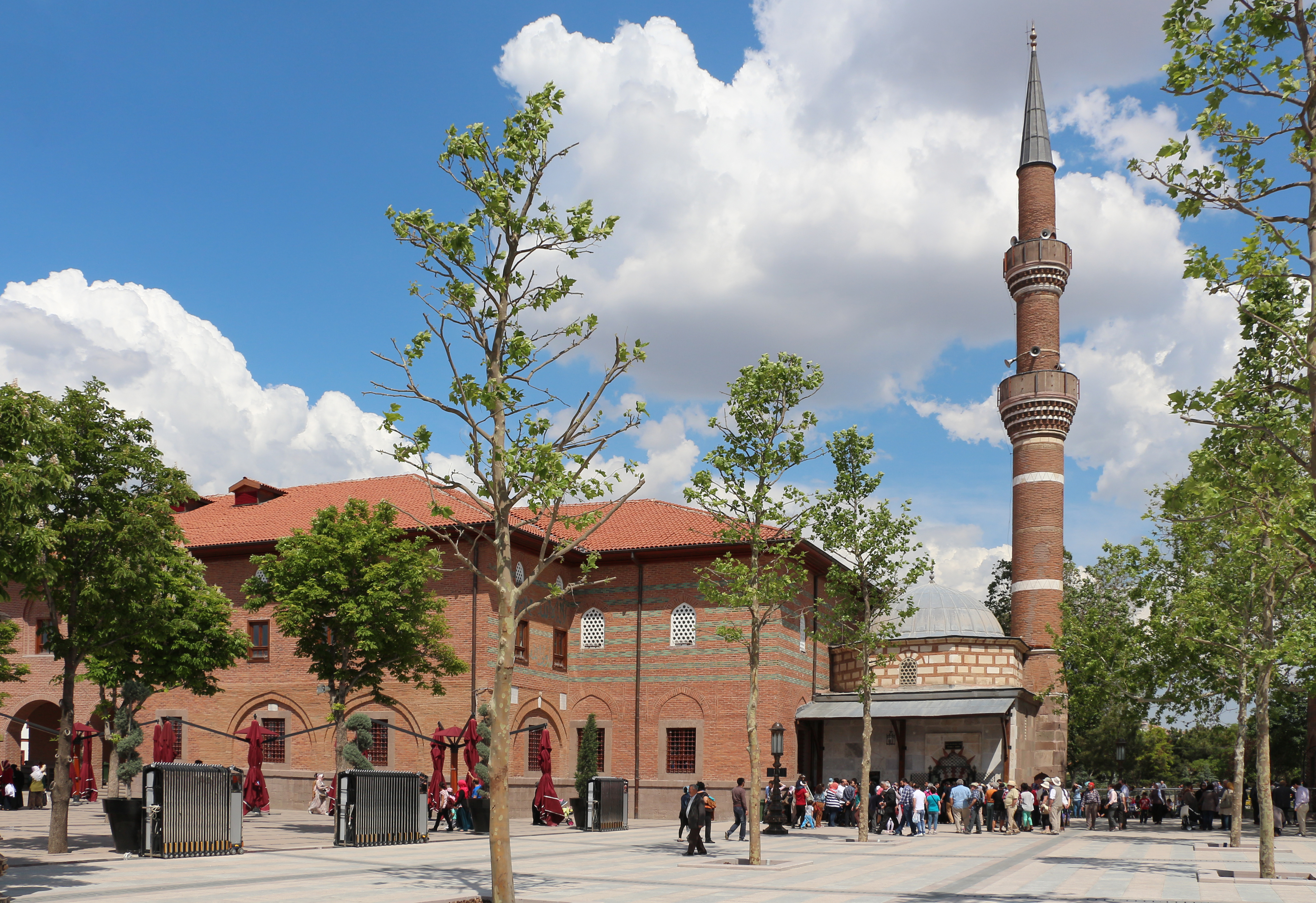 Haci Bayram Mosque, Ankara